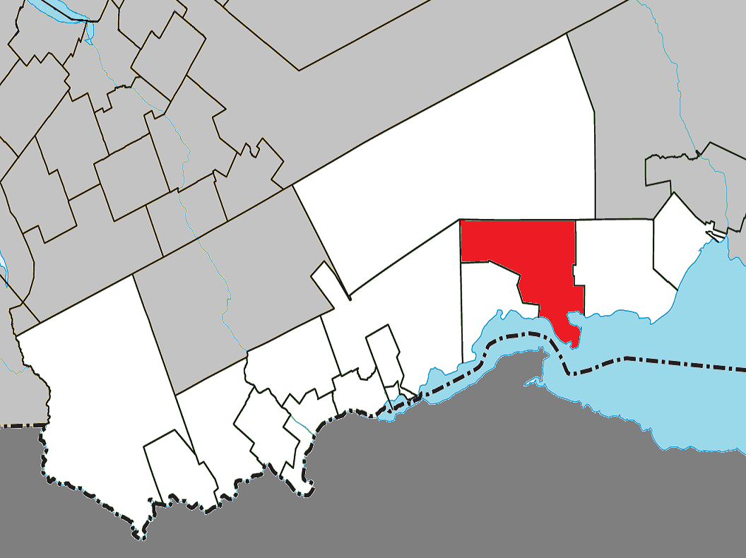 Location of Nouvelle, Quebec within Avignon Regional County Municipality.